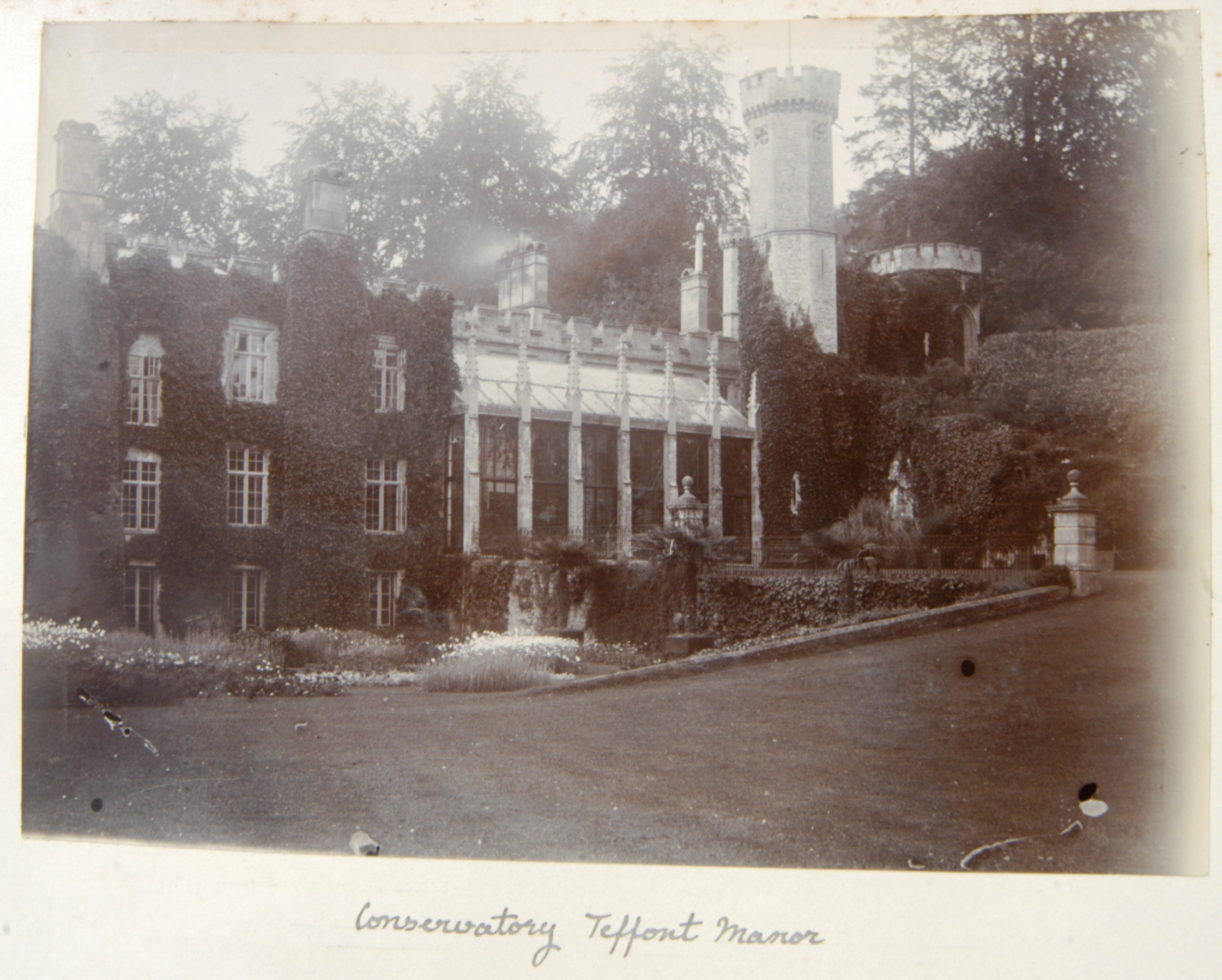 Photo (my me, R. de Salis, Rodolph (talk) 21:38, 18 August 2015 (UTC)) of a photo of the onservatory front of Teffont Manor, Teffont Evias, late nineteenth century.